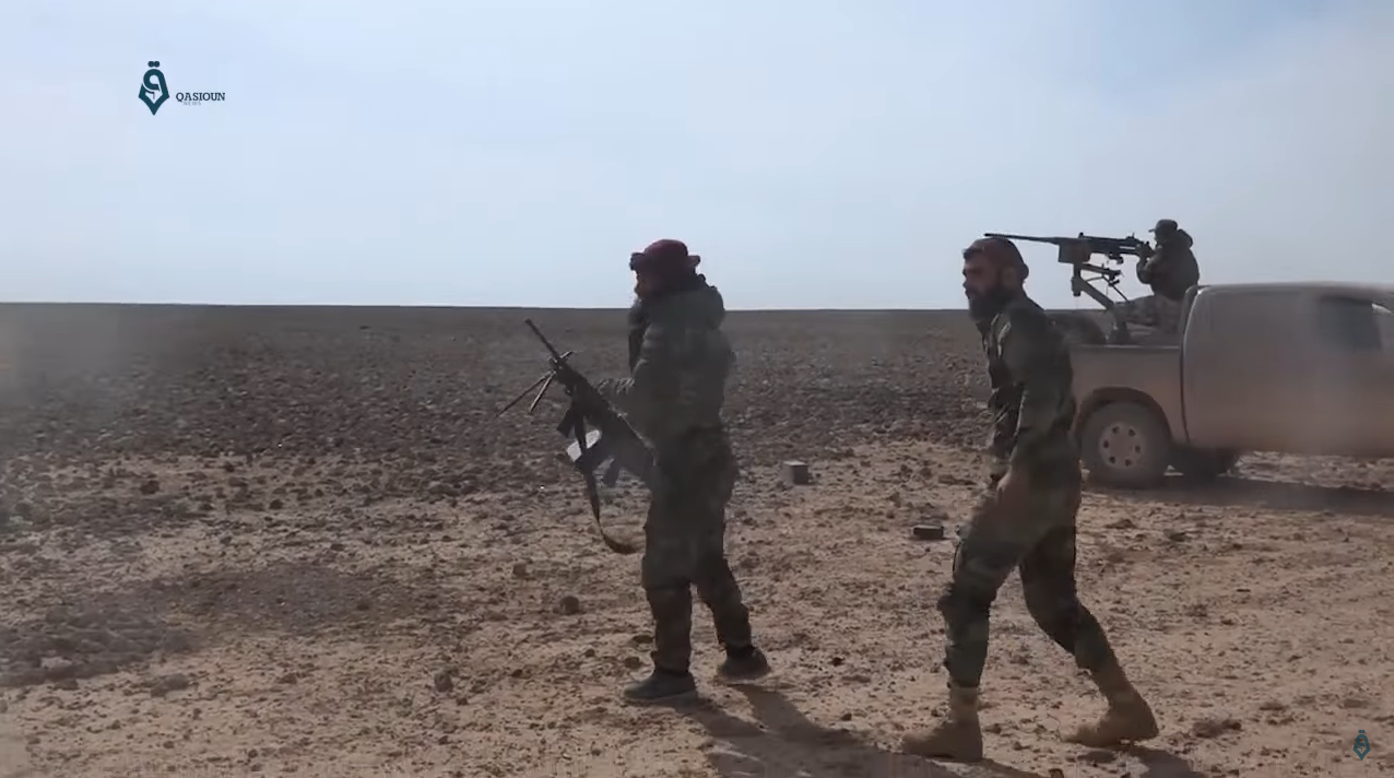 Lions of the East Army infantry with technical.